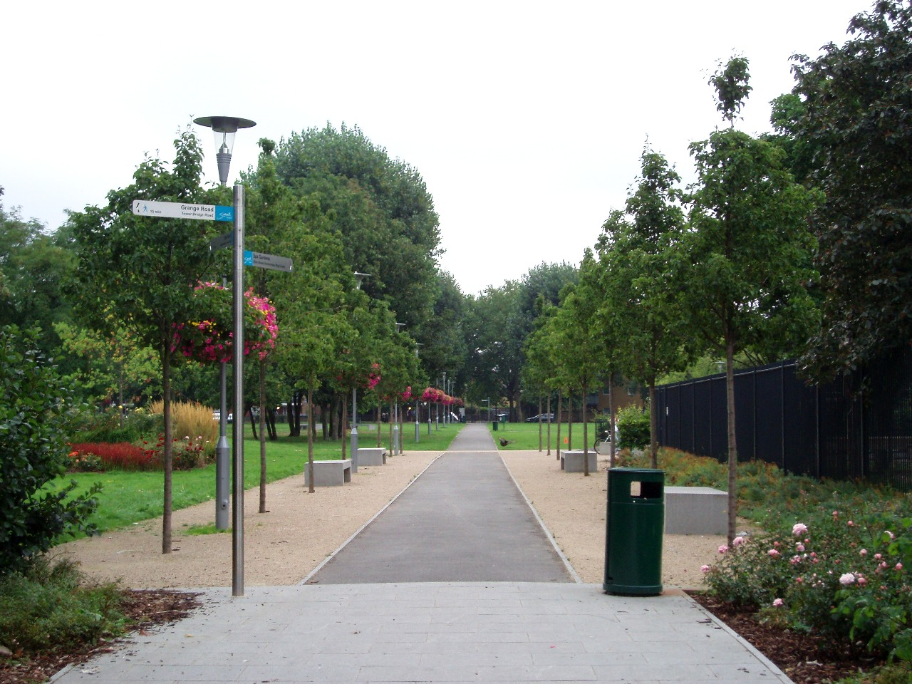 Small, pretty gardens off Grange Rd in Bermondsey. Photo taken August 2008. Owner: London Borough of Southwark.